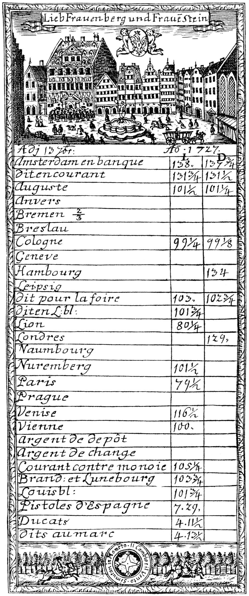 Frankfurt on the Main: Exchange list of September 13th 1727, to the top a depiction of the western side of the Liebfrauenberg with the house Grosser Braunfels (Great Braunfels), at that time place of the stock exchange